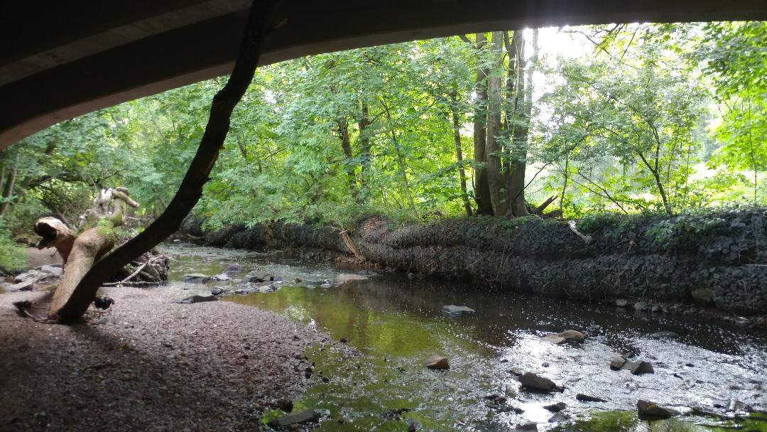 Peters Brook under the N. Bridge Street bridge, Somerville, New Jersey (2019)